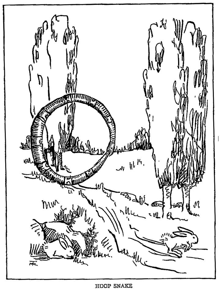 Fearsome critters (